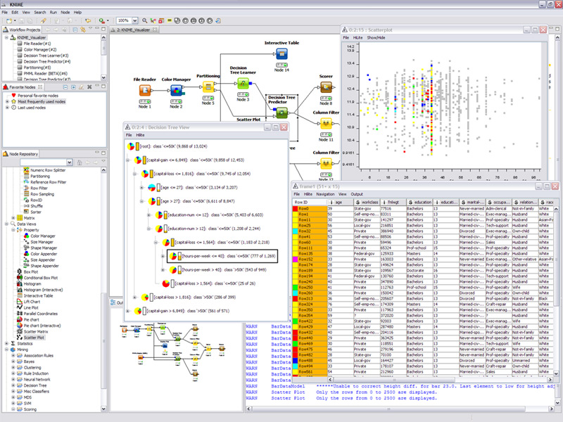 Screenshot of KNIME